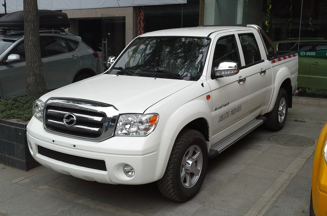 Zhongxing Grand Tiger photographed in Chengdu, Sichuan province, China.